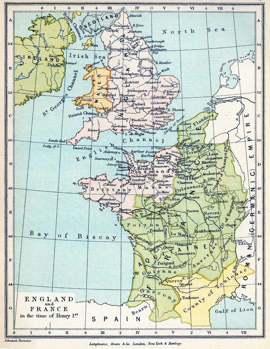 Map of England and France in the time of Henry I.